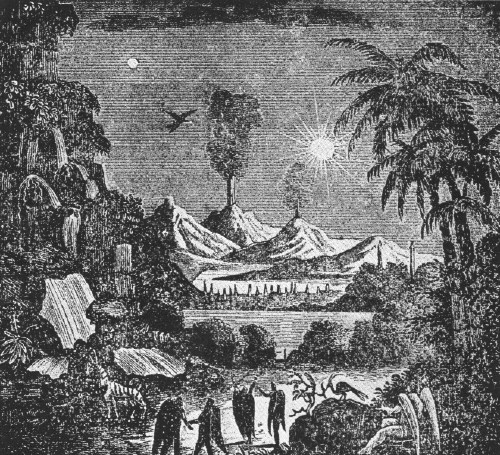 "Lunar Discoveries". MOONSCAPE STAGE SET from a New York "Panorama of Lunar Discoveries" appeared as an engraving in the Sun on October 16, 1835.